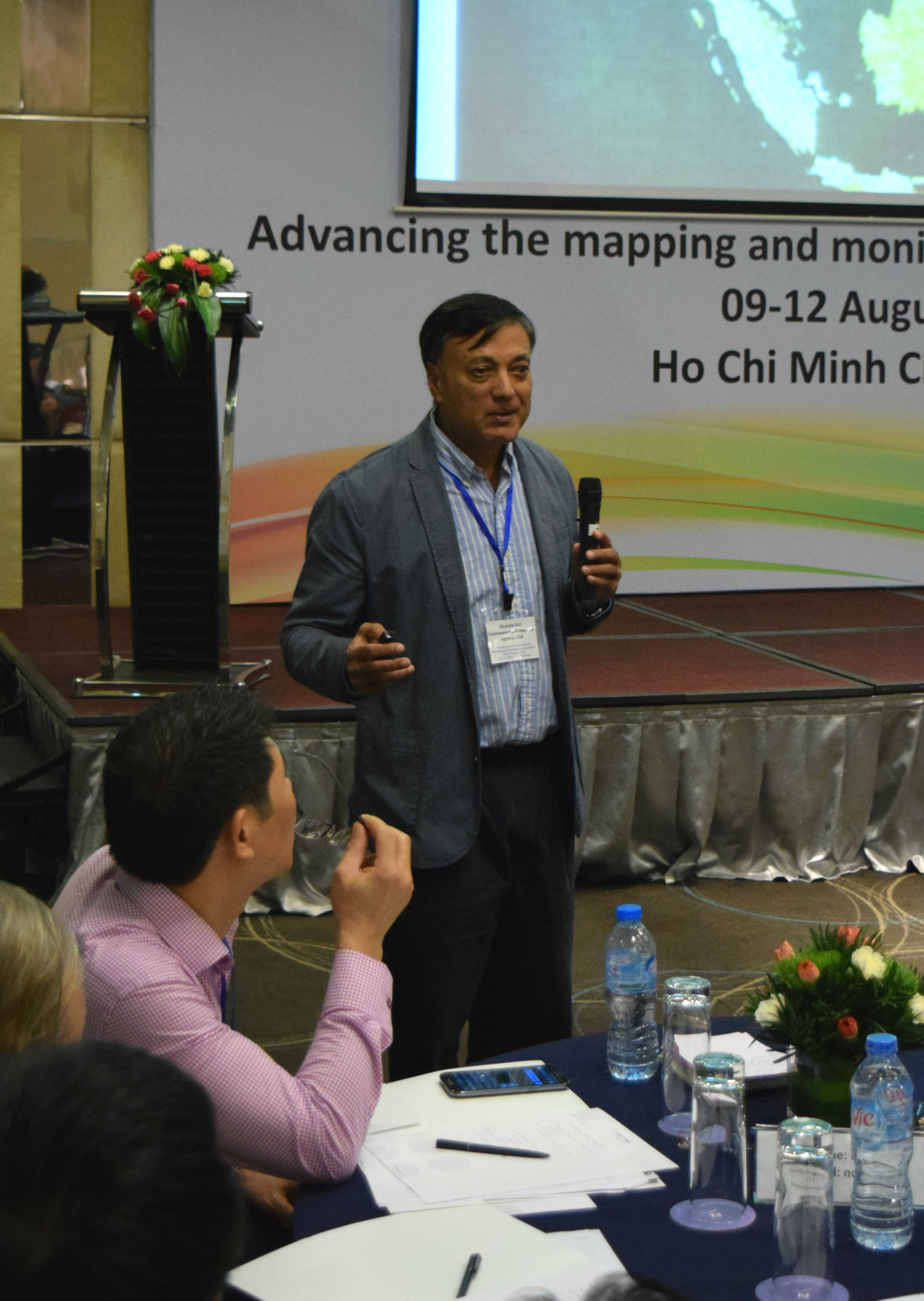 mangrove workshop